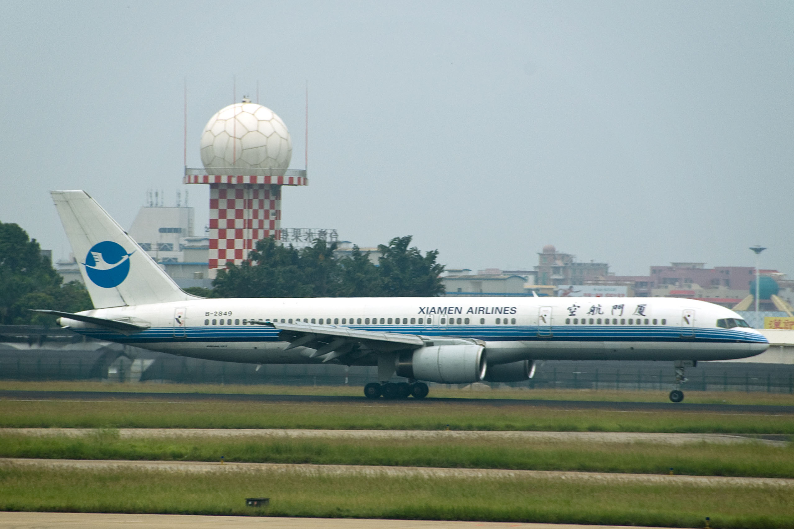 An aircraft of Xiamen Airlines (with old paint) landing at runway of Xiamen Gaoqi International Airport. Aircraft model: 757-26C Registration number: B-2849